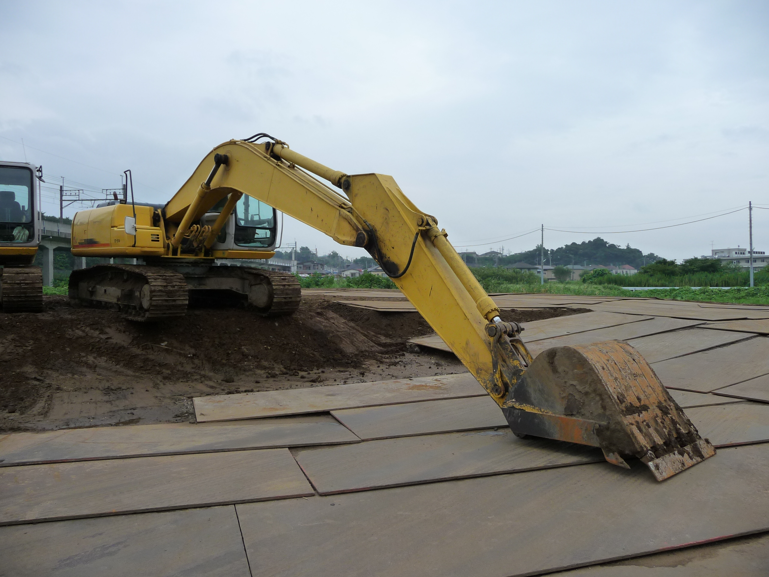 Excavator, SH200, bucket capacity 0.7M3, Sumitomo (S.H.I.) Construction Machinery